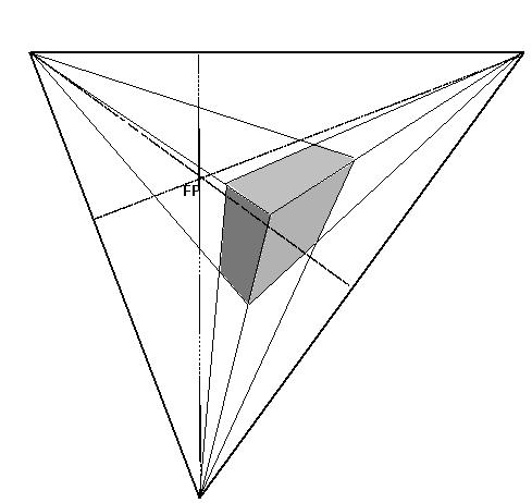 position of the main vanishing point in a 3-p perspective